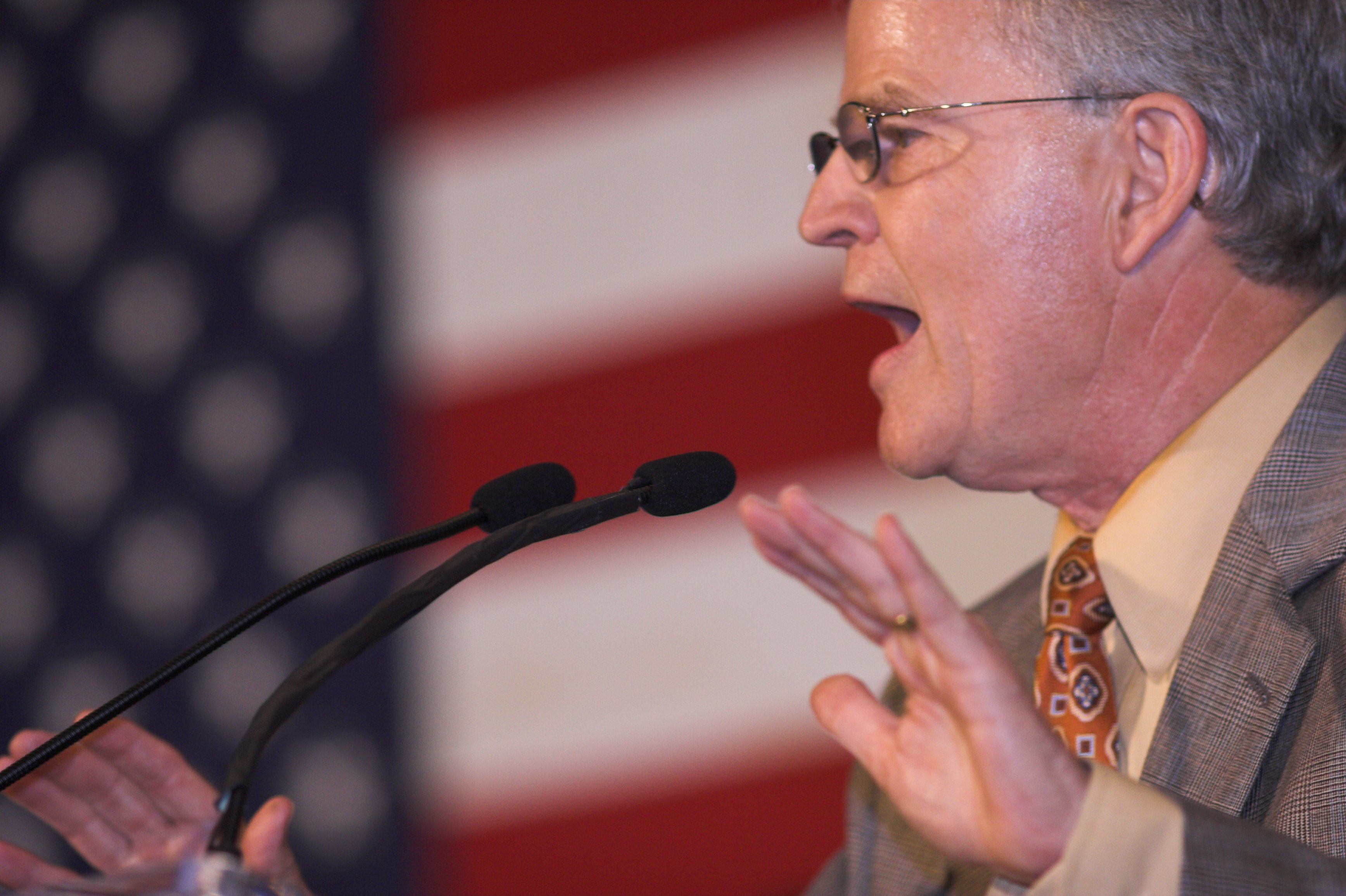 Former Louisiana Governor Buddy Romer, at campaign event for presidential candidate John McCain in Kenner, Louisiana. Original caption: "I kid not, Buddy Roemer is demonstrating how high John McCain can't raise his arms due to his injuries from being tortured in Vietnam. Kind of weird. "